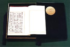 Constitution of the Empire of Japan